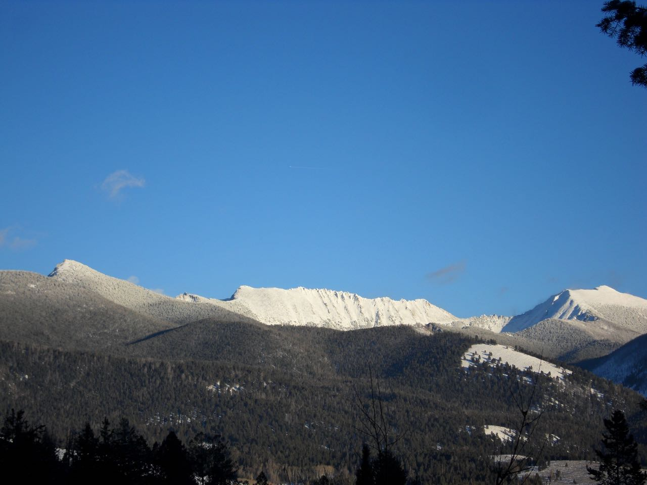 The western aspect of the eastern Pioneer Range as seen from Maverick Mountain, just before the golden hour.